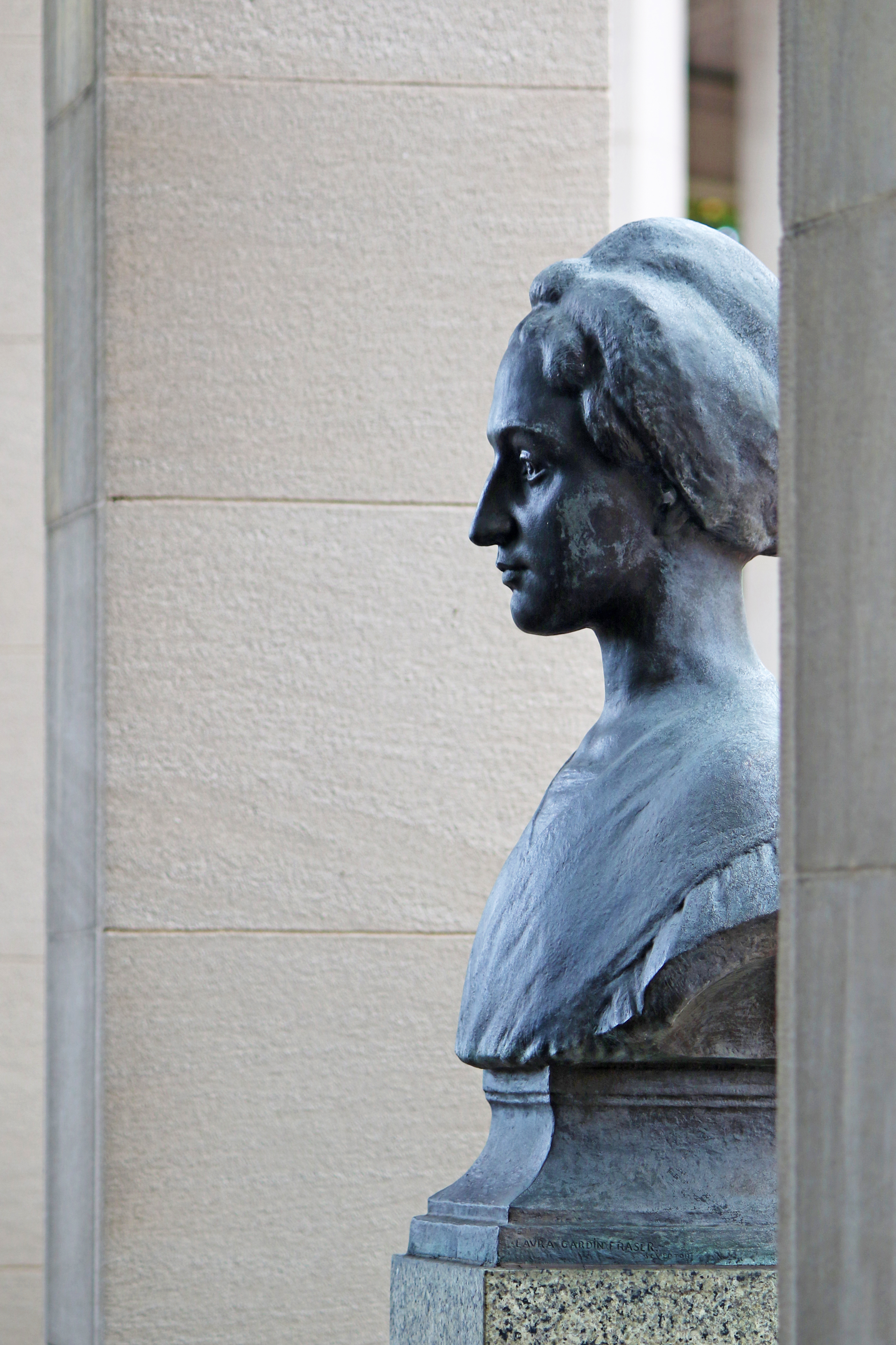 Site: Bronx Community College - Hall of Great Americans